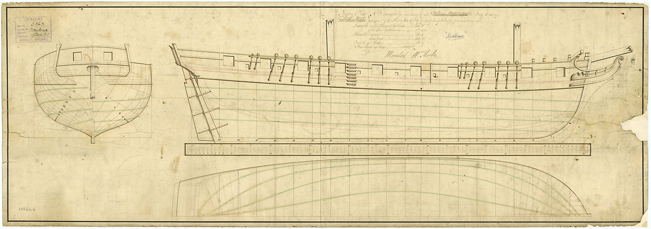 MUTINE 1806 lines